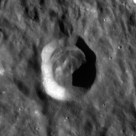 Drude crater, on the far side of the moon. Mosaic of LRO WAC images. Aspect ratio adjusted from Mercator Projection.